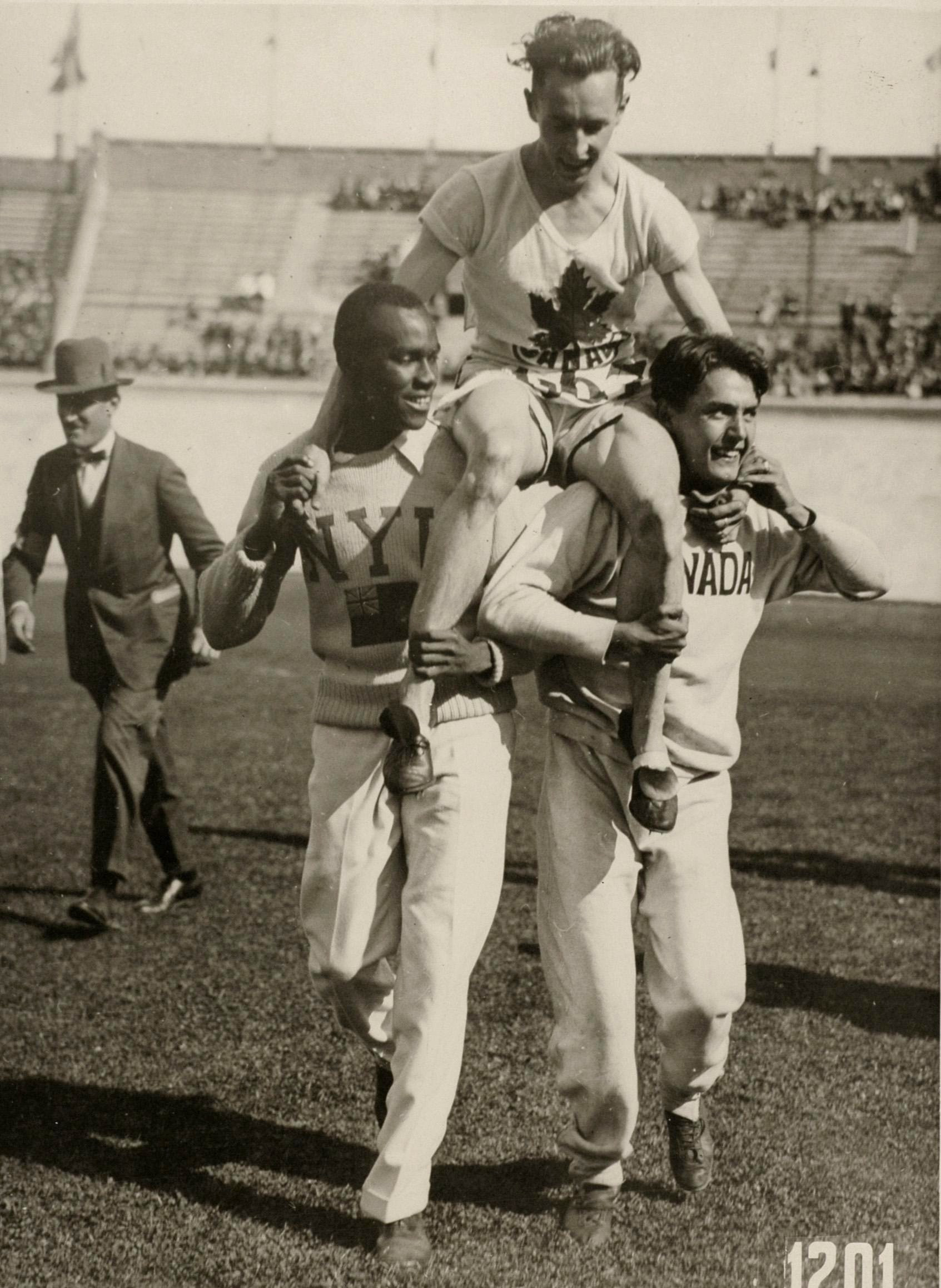 Percy Williams (centre) being carried by Phil Edwards (left) and another member of the Canadian team after his victory in the 100-metre race at the 1928 Summer Olympics.